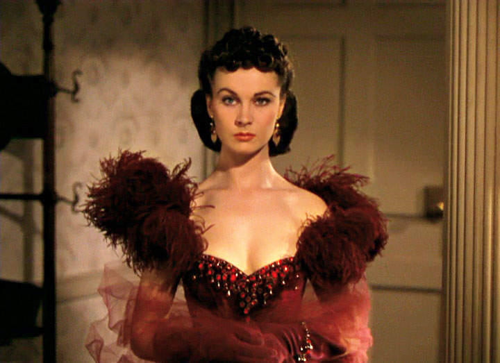 Cropped screenshot of Vivien Leigh from the trailer for the film Gone with the Wind